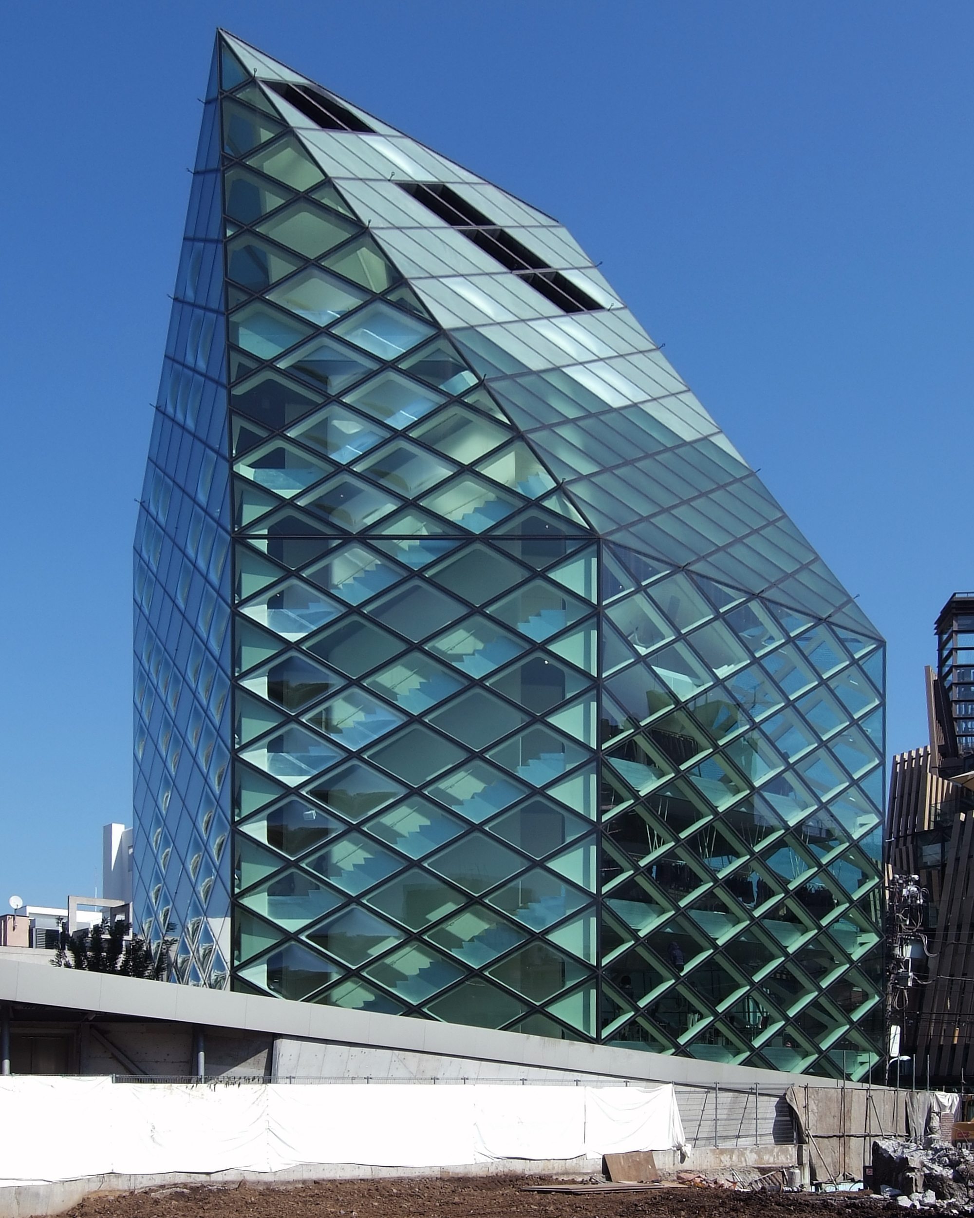 Prada Store in Tokyo. Architect : Herzog & de Meuron